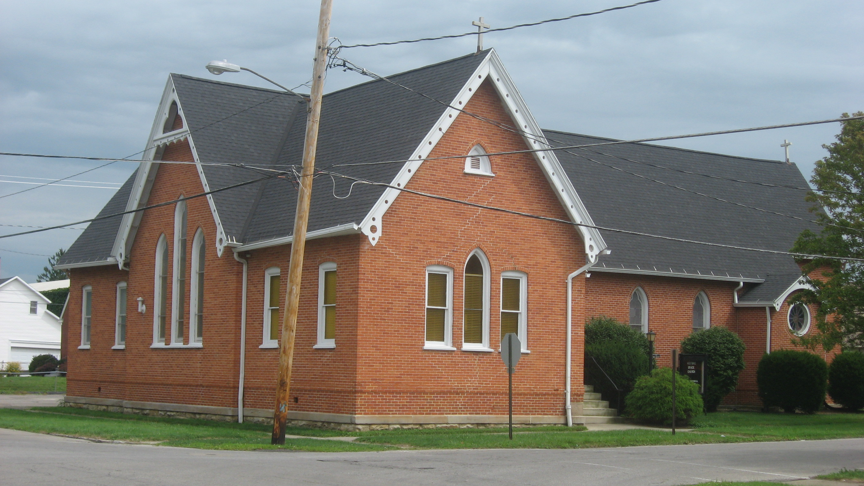 Front of Grace Episcopal Church, located on the northeastern corner of the junction of Walnut and Union Streets in Galion, Ohio, United States. Along with four neighboring buildings, the church is listed on the National Register of Historic Places.